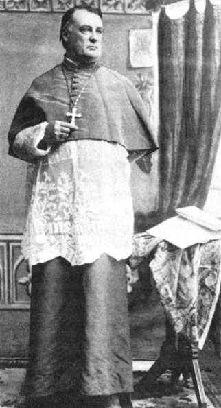 An image of Bishop Edward Mary Fitzgerald (1833-1907)